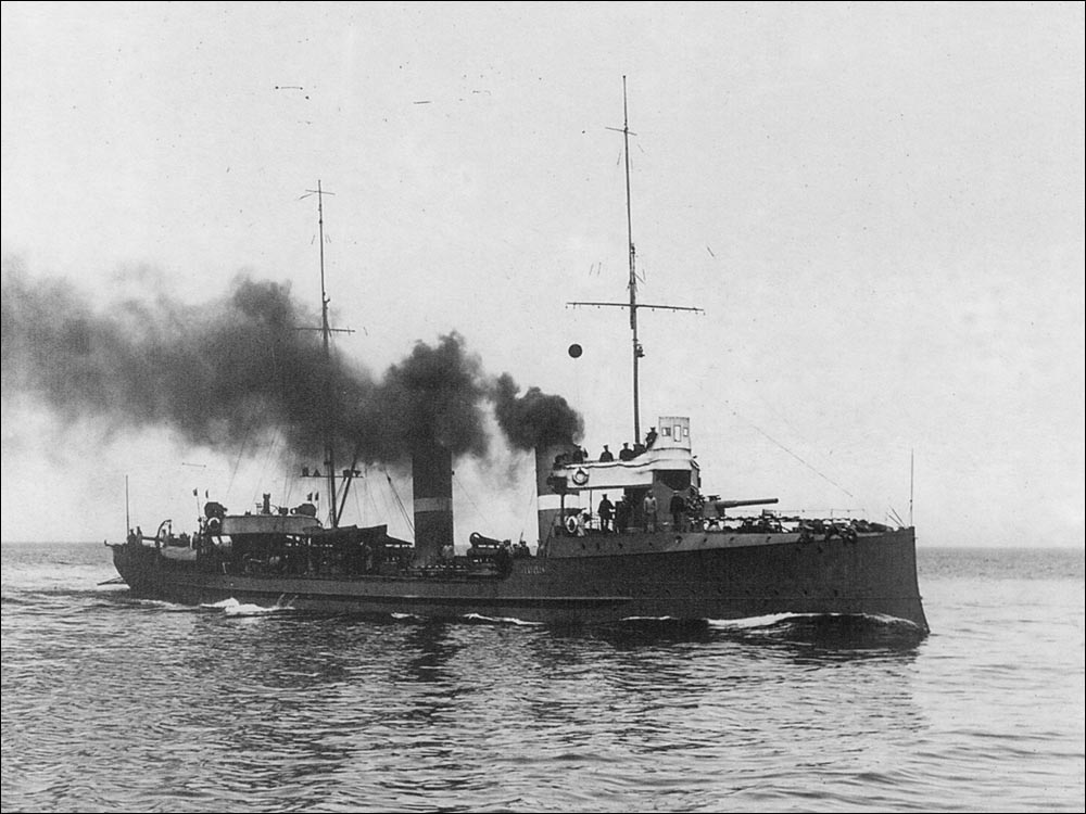 Imperial Russian destroyer Pogranichnik.